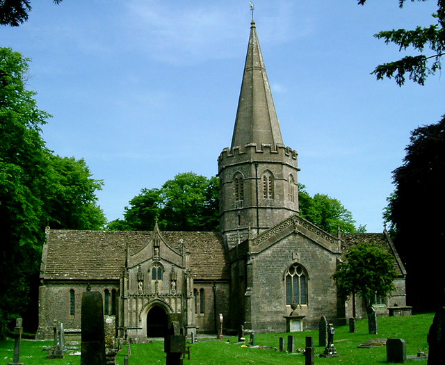 St Aldhelm’s parish church, Doulting, Somerset, seen from the south, showing the Gothic revival south porch added in 1869 by George Gilbert Scott